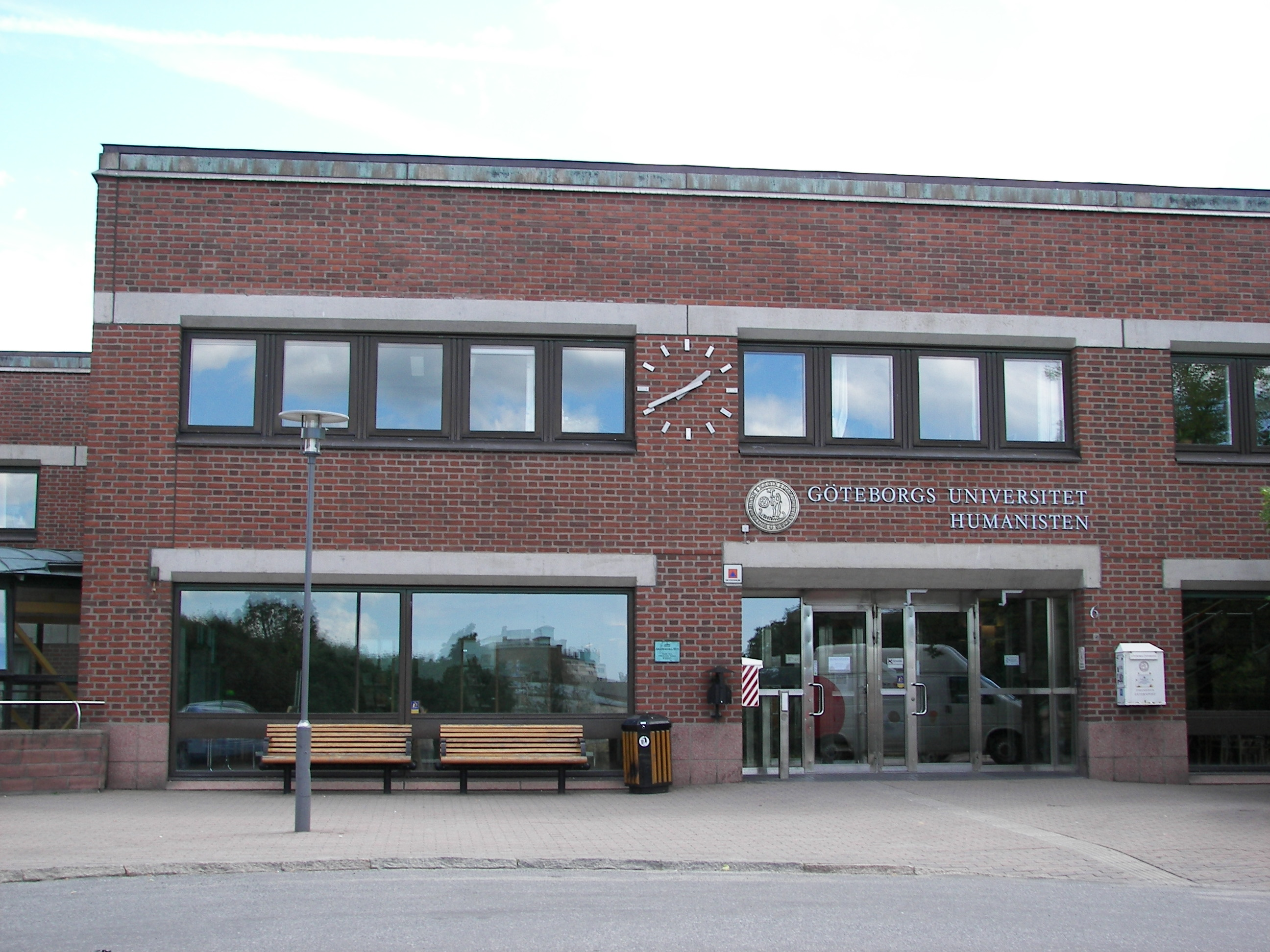 Göteborg University - Humanisten